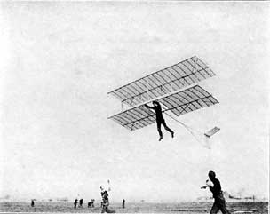 Hang glider under tow. Philadelphia, USA. 1920s.